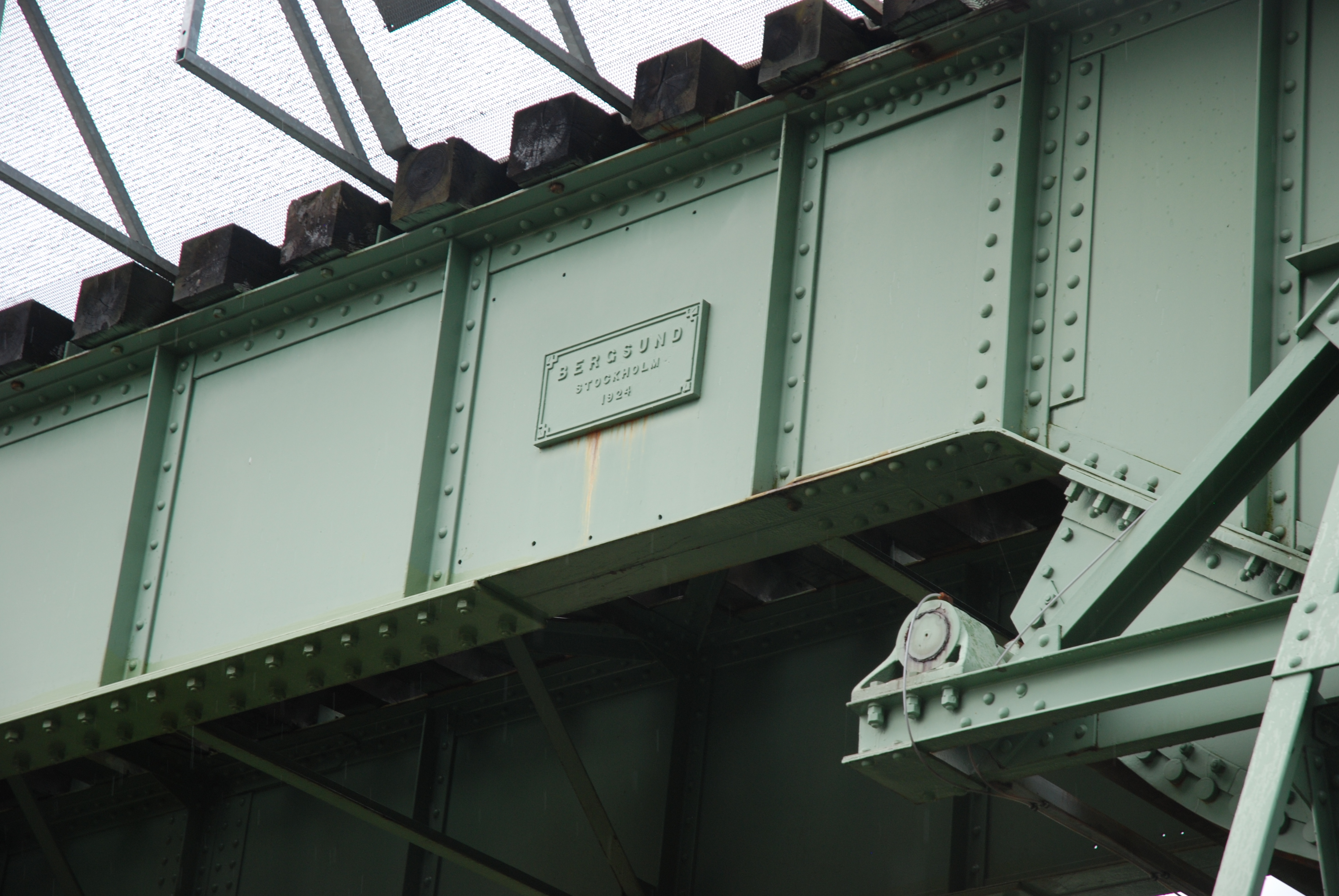 Järnvägsbron, del av akvedukten i Håverud, tiollverkad av Bergsunds Mekaniska Werkstad 1924